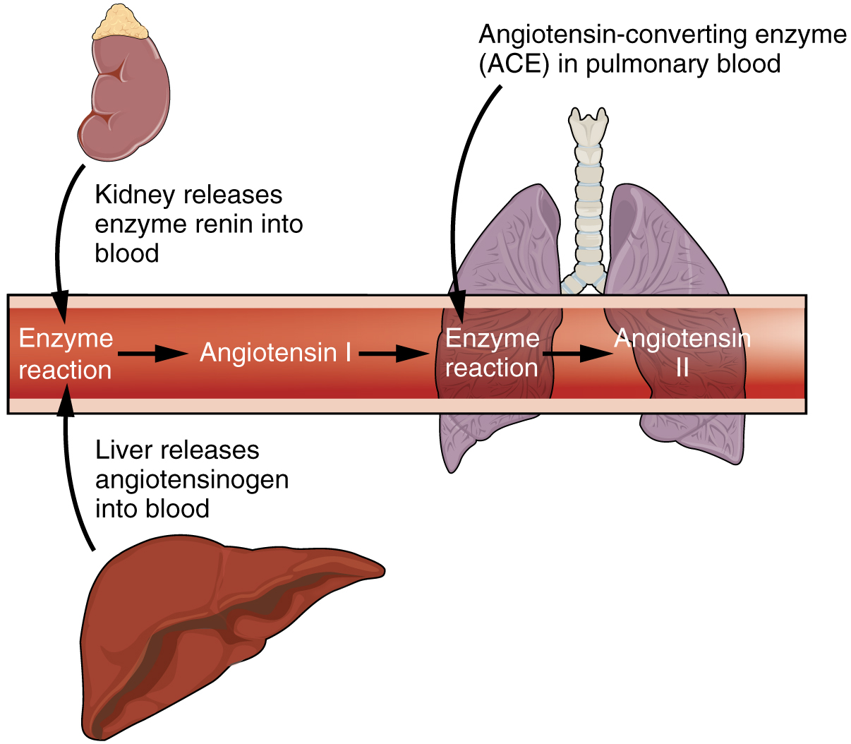 Illustration from Anatomy & Physiology, Connexions Web site. Jun 19, 2013.